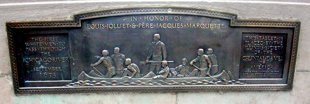 In honor of Louis Jolliet and Pere Jacques Marquette On the bridge over Chicago River on Michigan avenue, Chicago, Illinois